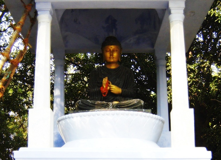 Buddha-image at Venuvana, Rajir, Bihar, India.